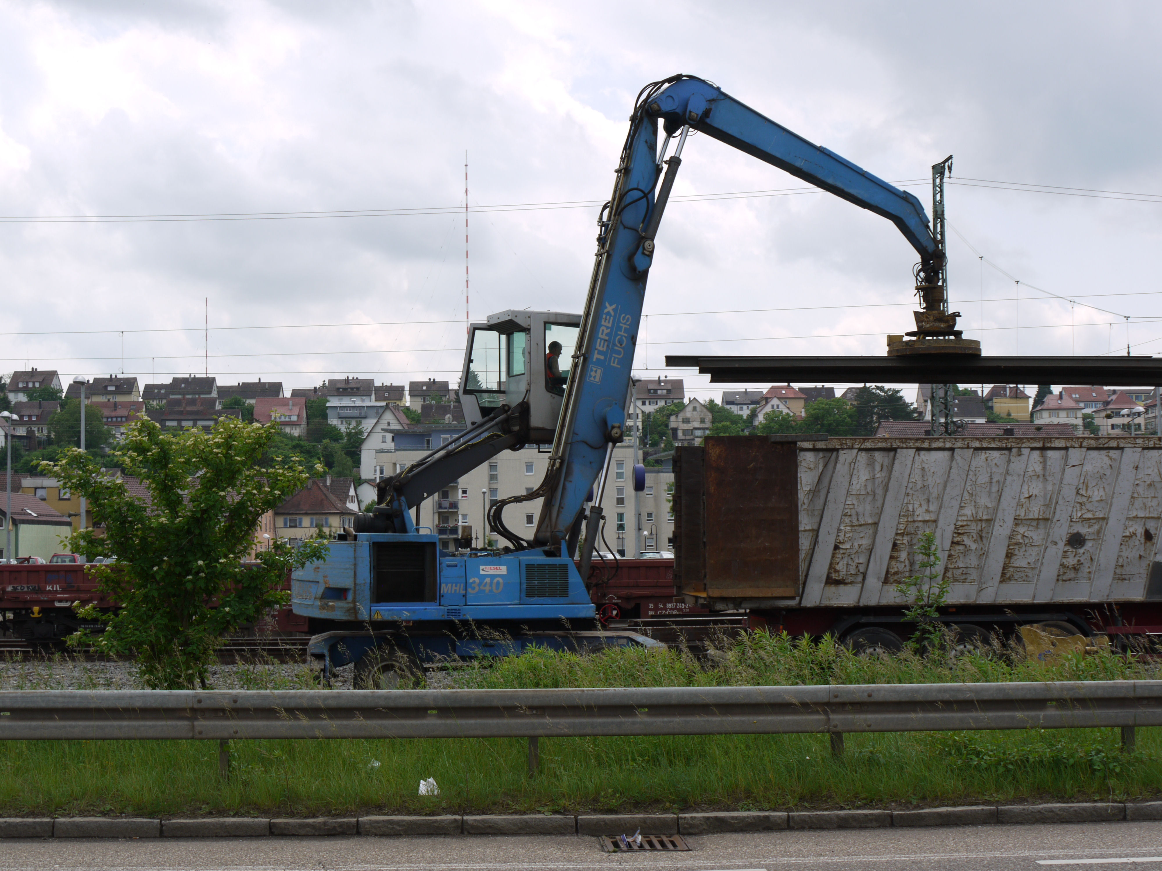 Loading machine with hydraulic raisable cab loads scrap rails.